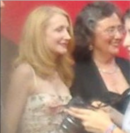 Patricia Clarkson (left) with her mother, city councilwoman, Jackie Brechtel Clarkson. Taken in New Orleans, Louisiana